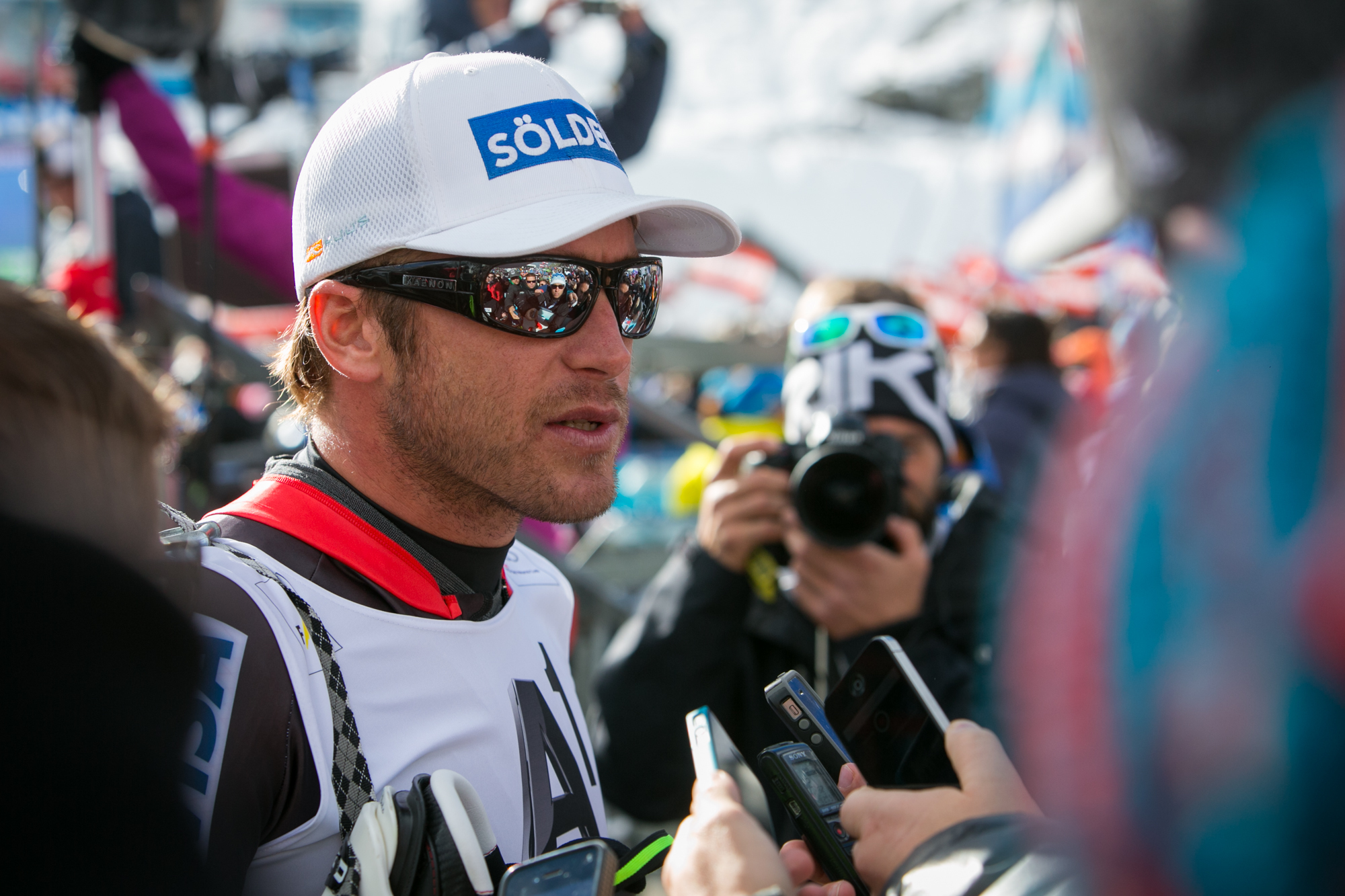 Bode Miller beim Skiweltcup Opening am 26. und 27. Oktober 2013 in Sölden.